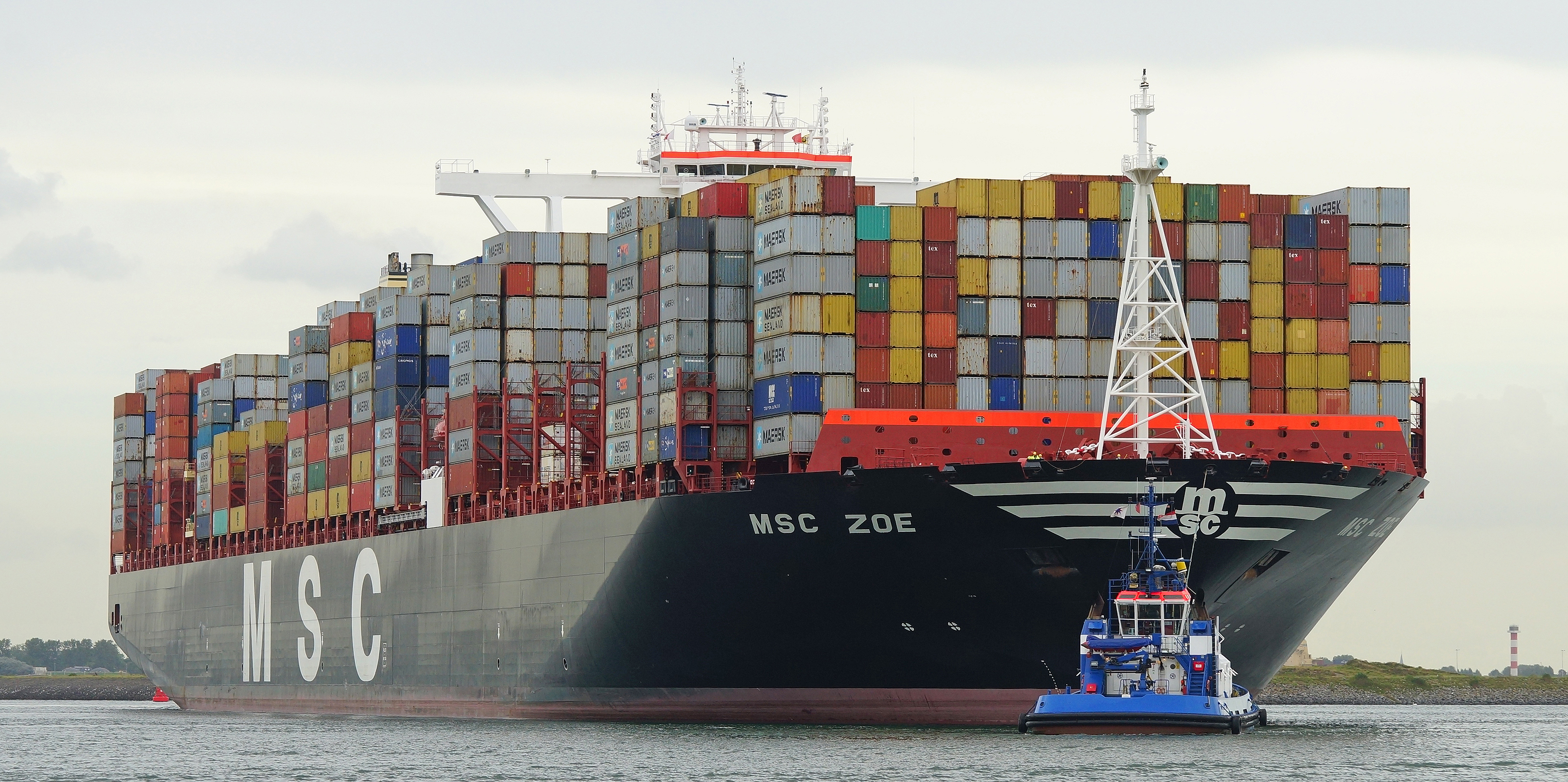 Container ship MSC Zoe, Europoort - Rotterdam